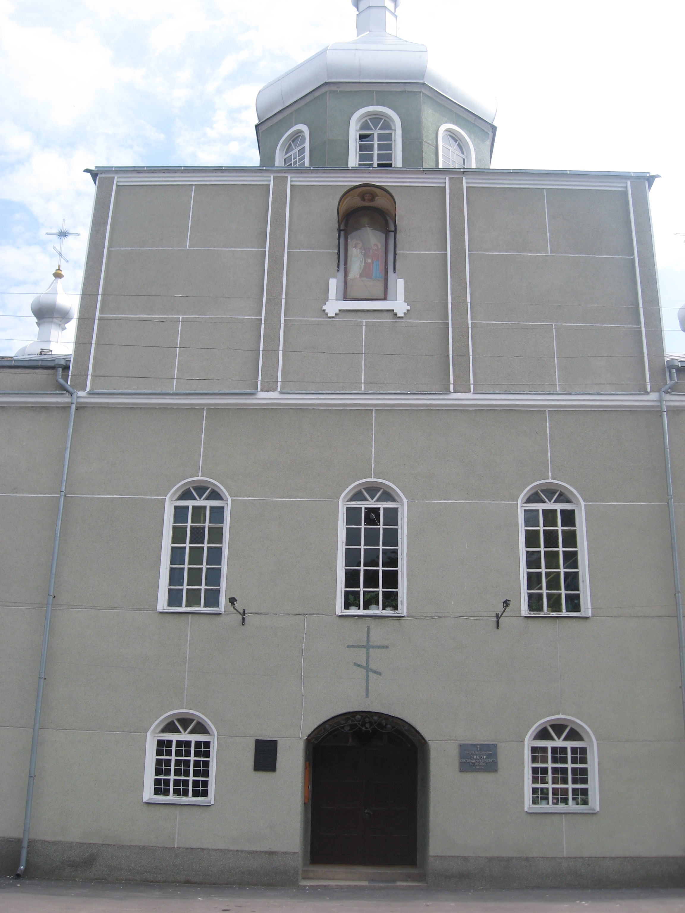 Church in Kovel